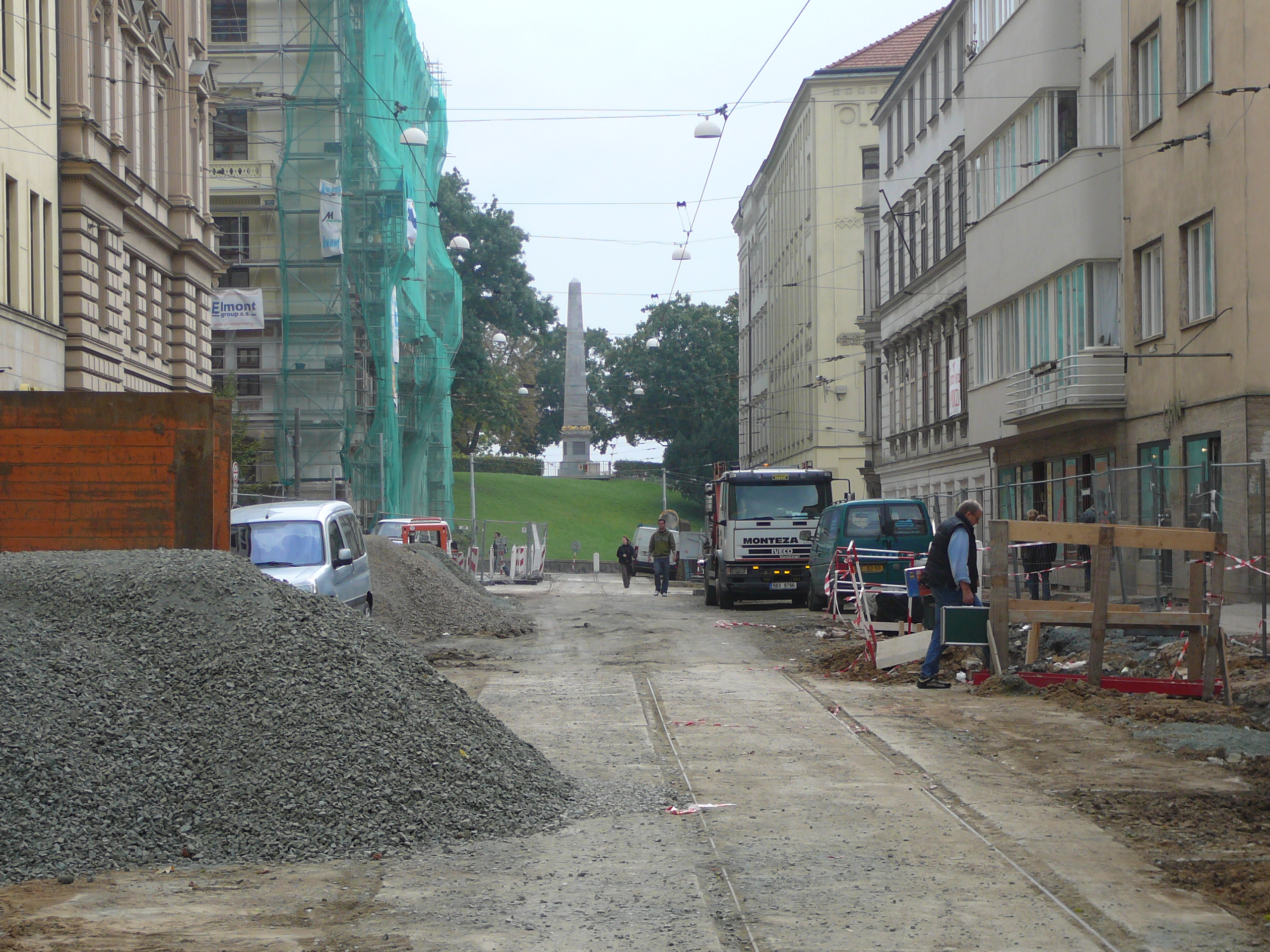 Husova street under reconstruction in 2008